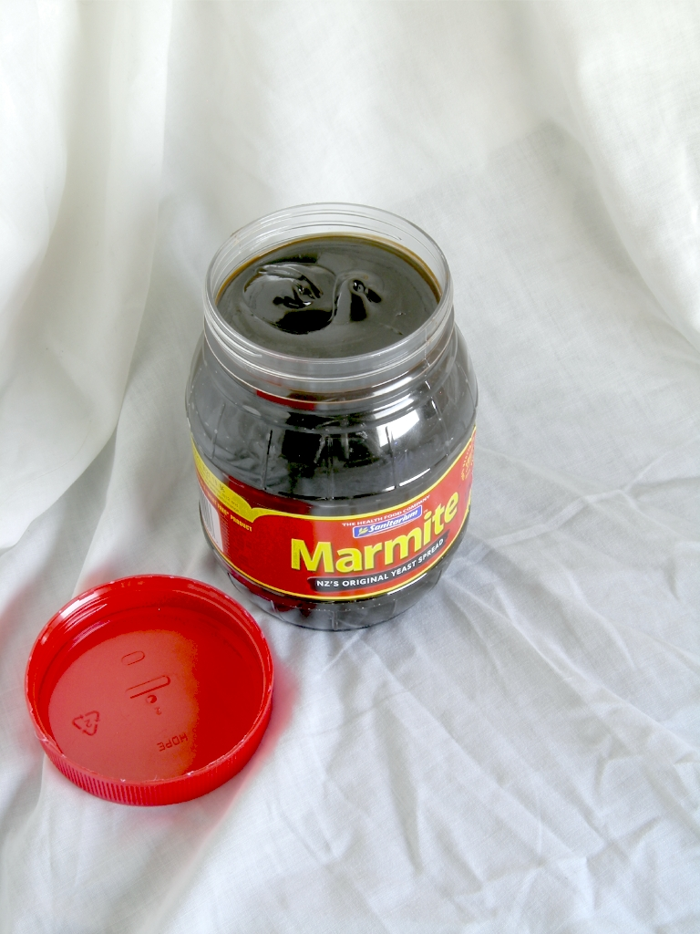 A Single 1.2Kg Jar of the NZ/AU Marmite Variety, as produced by Sanitarium, showing colour and consistency, as well as the availability of the larger size.